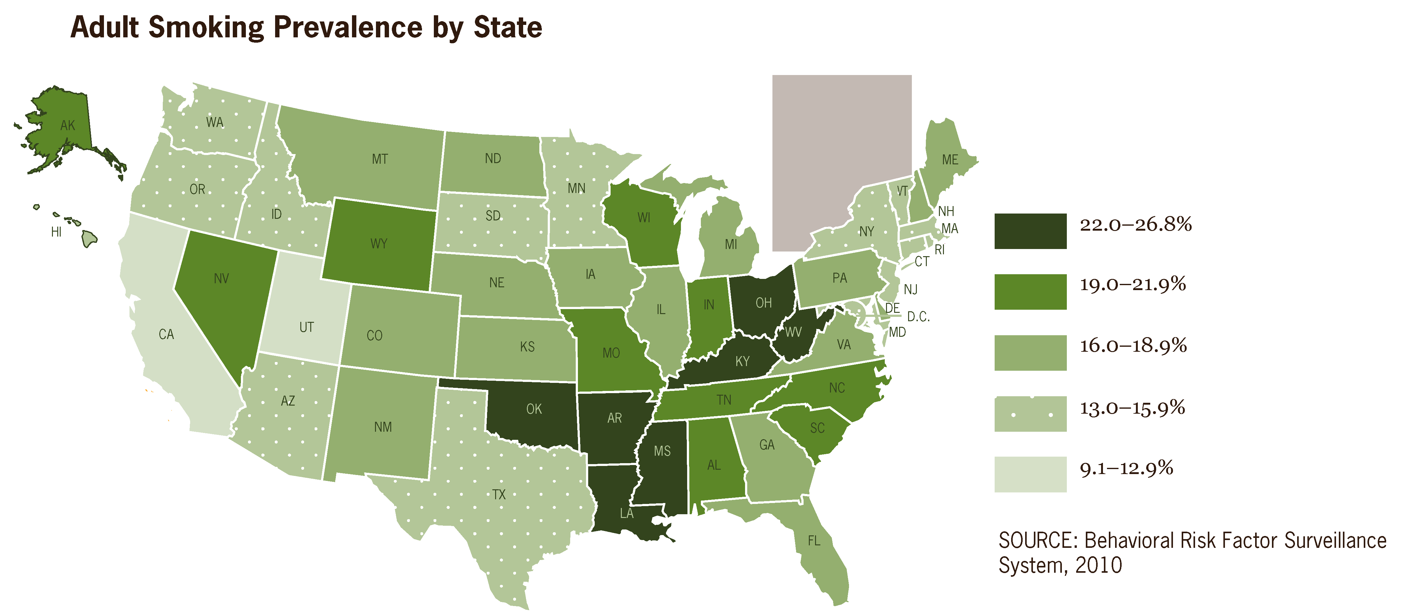 Adult Smoking Prevalence by State US 2010